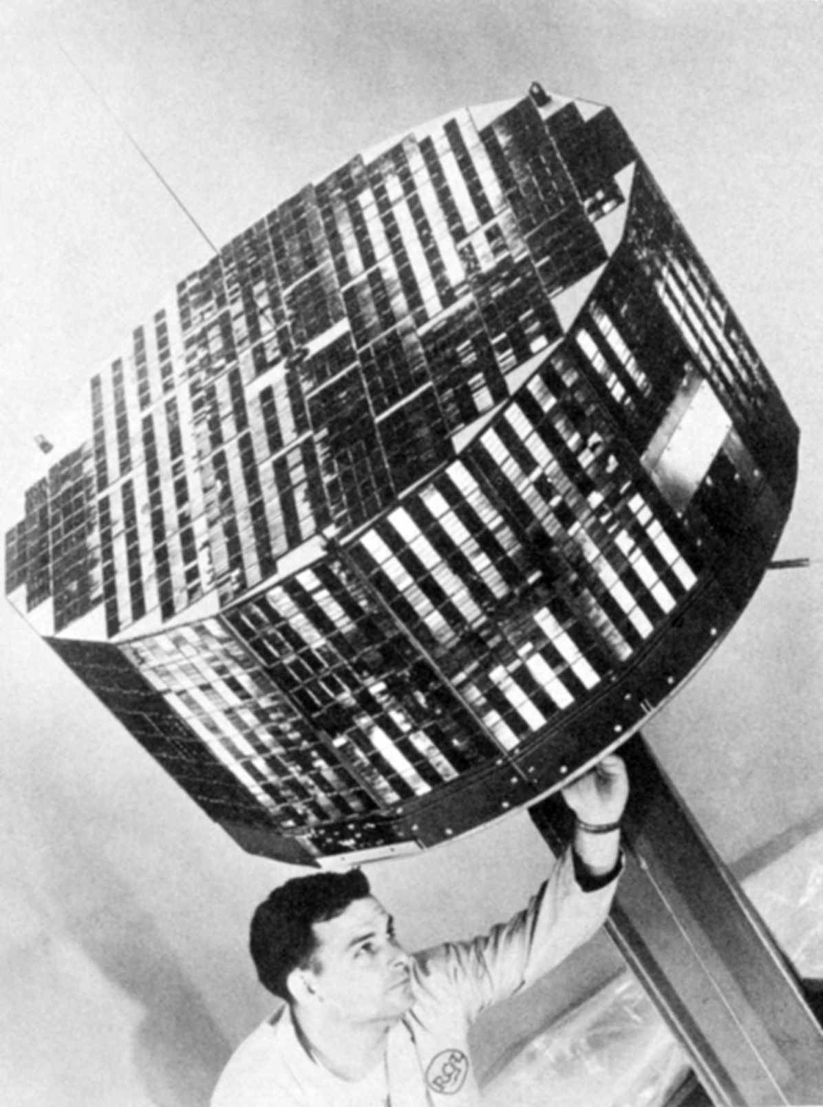 Making adjustments to TIROS II satellite prior to launch. Small square objects are 9,260 solar cells. TIROS II was the first meteorological satellite to have infra-red sensors as well as television cameras. It was launched November 23, 1960 and weighed 280 pounds.